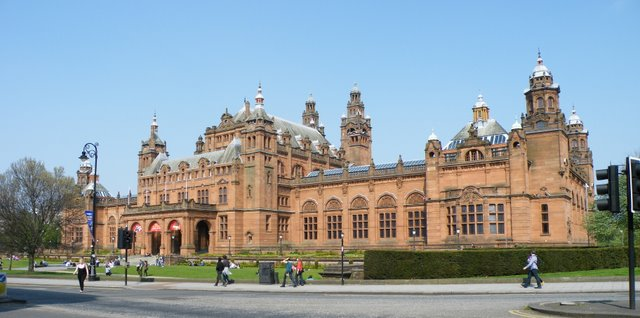 Kelvingrove Museum and Art Gallery Basking in the warm spring sunshine which nicely highlights the red sandstone features.